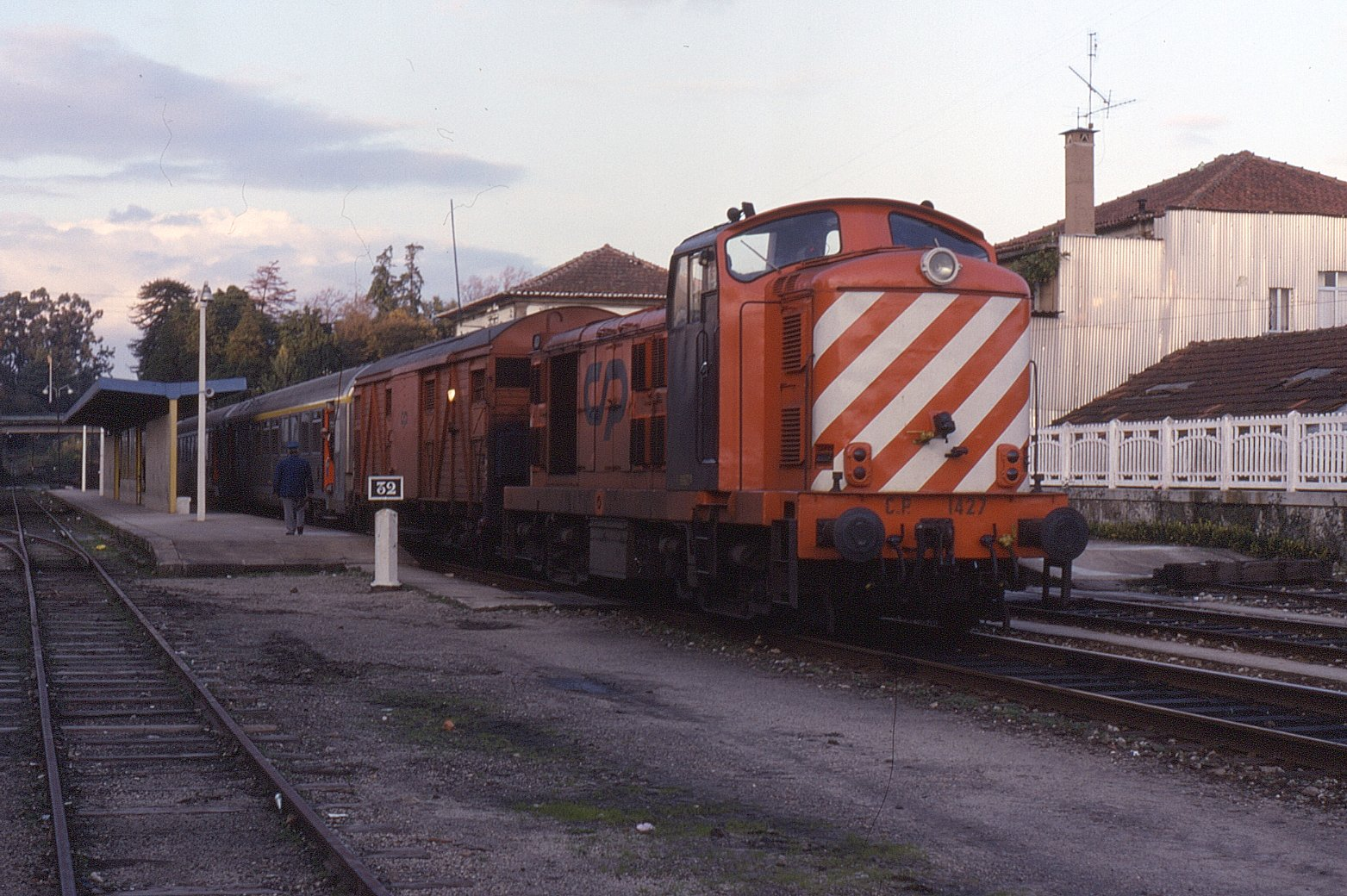 Journeys end at Famalicão on 8 November 1993. Single cabbed class 1400 loco no. 1427 worked train IC534 Lisboa Santa Apolónia to Famalicão from Porto.